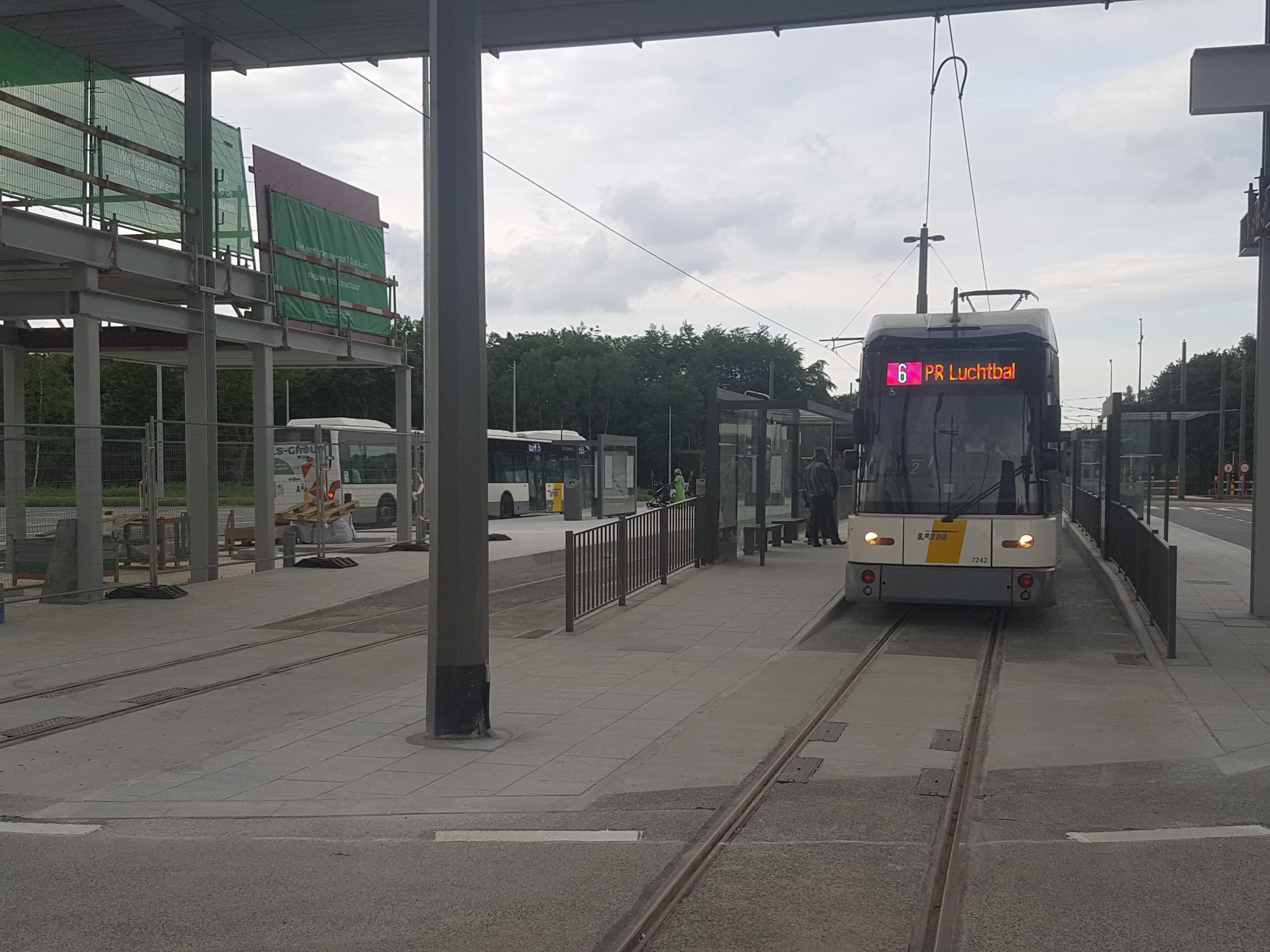 P+R Luchtbal with Antwerp tram line 6 and bus line 720, on the first day of tram 6's extension